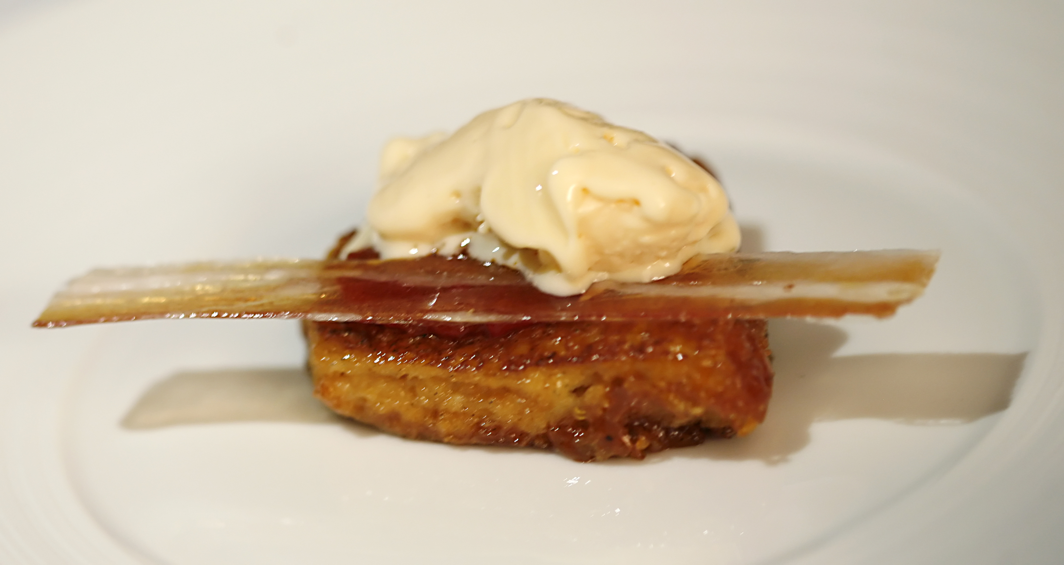 Nitro-Scrambled Egg and Bacon Ice Cream, Pain Perdu.